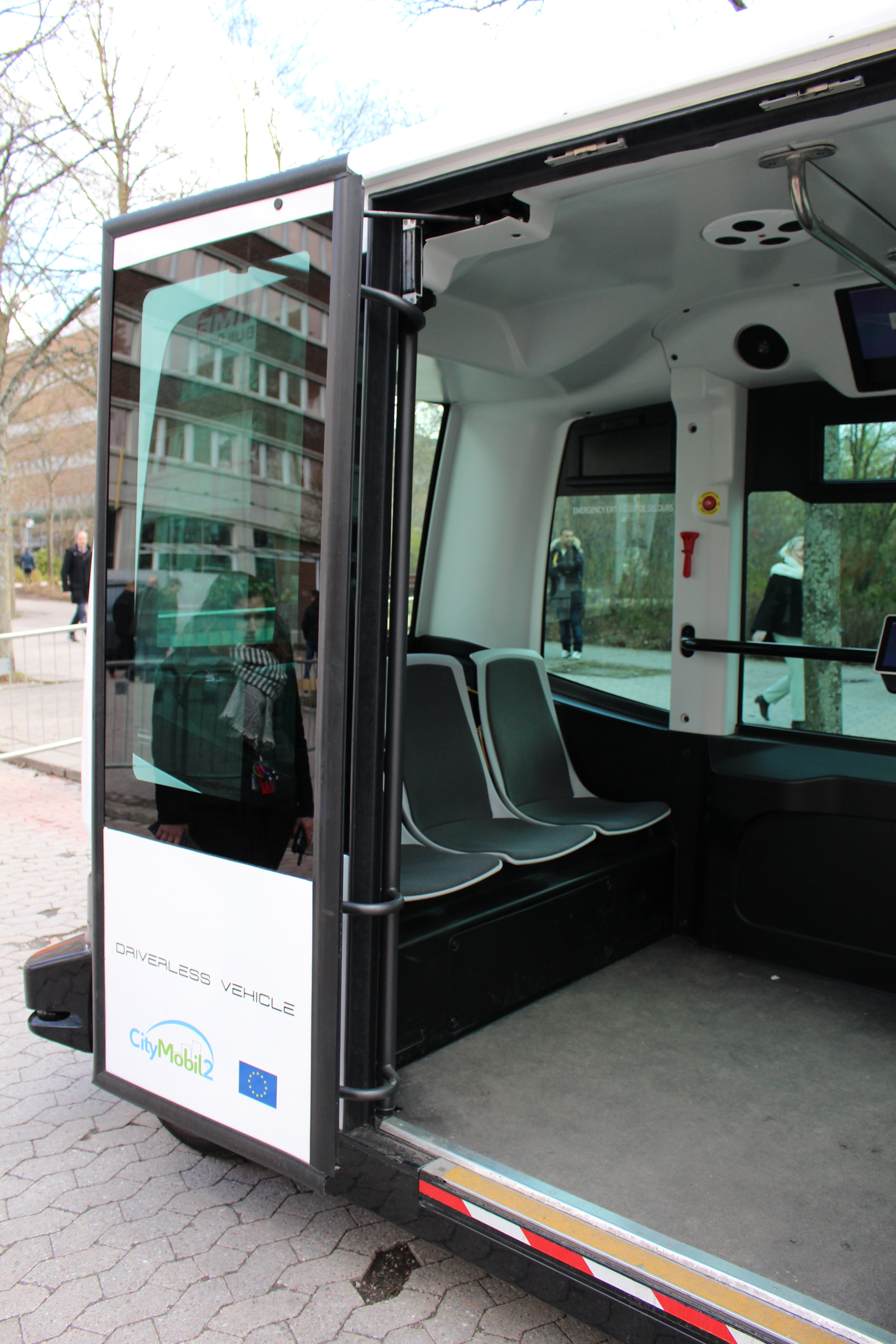 Demonstration of Ligier EZ-10 at Kistagången in Kista, Stockholm, Sweden